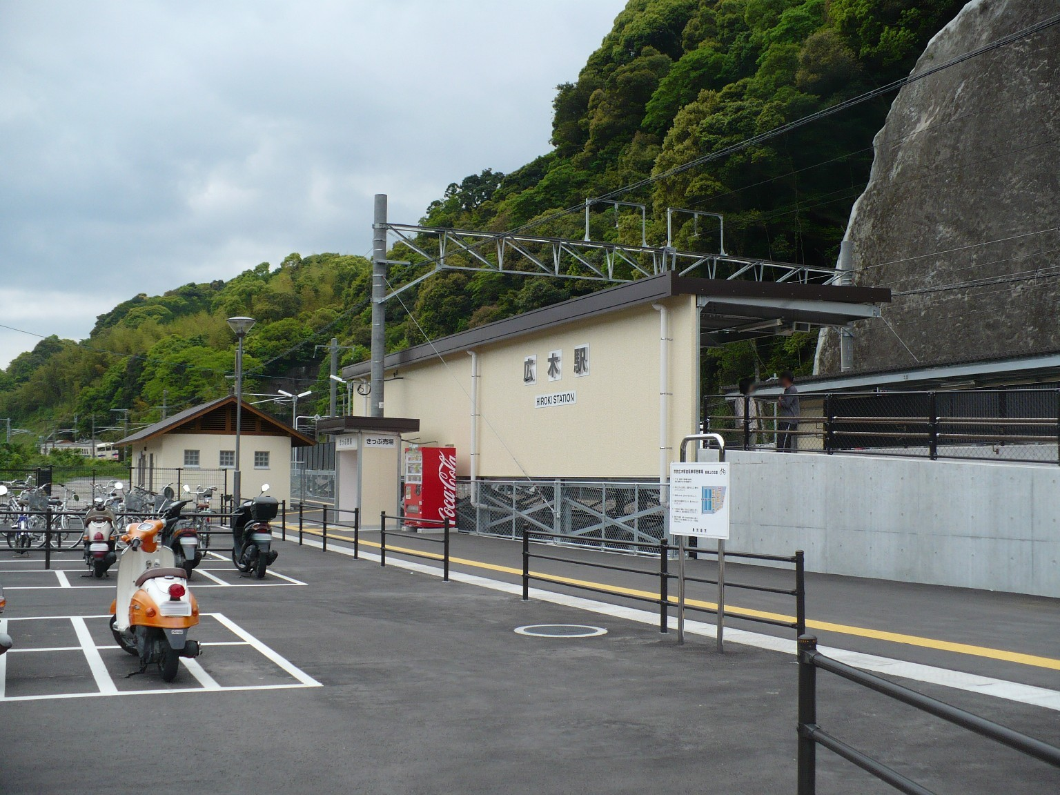 Hiroki station of Kyushu railway company (JR Kyushu) Kagoshima main line, Kagoshima city Kagoshima prefecture Japan